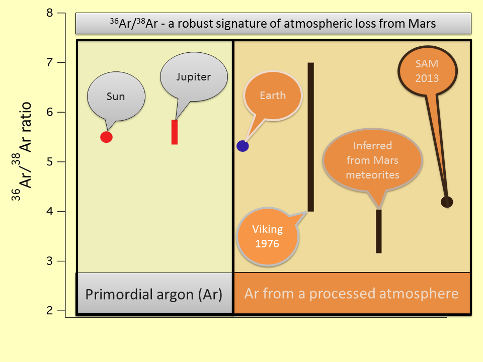 Argon Isotopes Provide Robust Signature of Atmospheric Loss This image shows the ratio of the argon isotope argon-36 to the heavier argon isotope argon-38, in various measurements. The point farthest to the right designates a new (2013) measurement of the ratio in the atmosphere of Mars, made by the quadrupole mass spectrometer in the Sample Analysis at Mars (SAM) suite of instruments in NASA's Curiosity Mars rover. For comparison, the previous measurement at Mars by the Mars Viking project in 1976 is shown also. The SAM result is at the lower end of the range of uncertainty of the Viking data, but compares well with ratios of argon istotopes from some Mars meteorites. The value determined by SAM is significantly lower than the value in the sun, Jupiter and Earth, which implies loss of the lighter isotope compared to the heavier isotope over geologic time. The argon isotope fractionation provides clear evidence of the loss of atmosphere from Mars. Image Addition Date: 2013-04-08